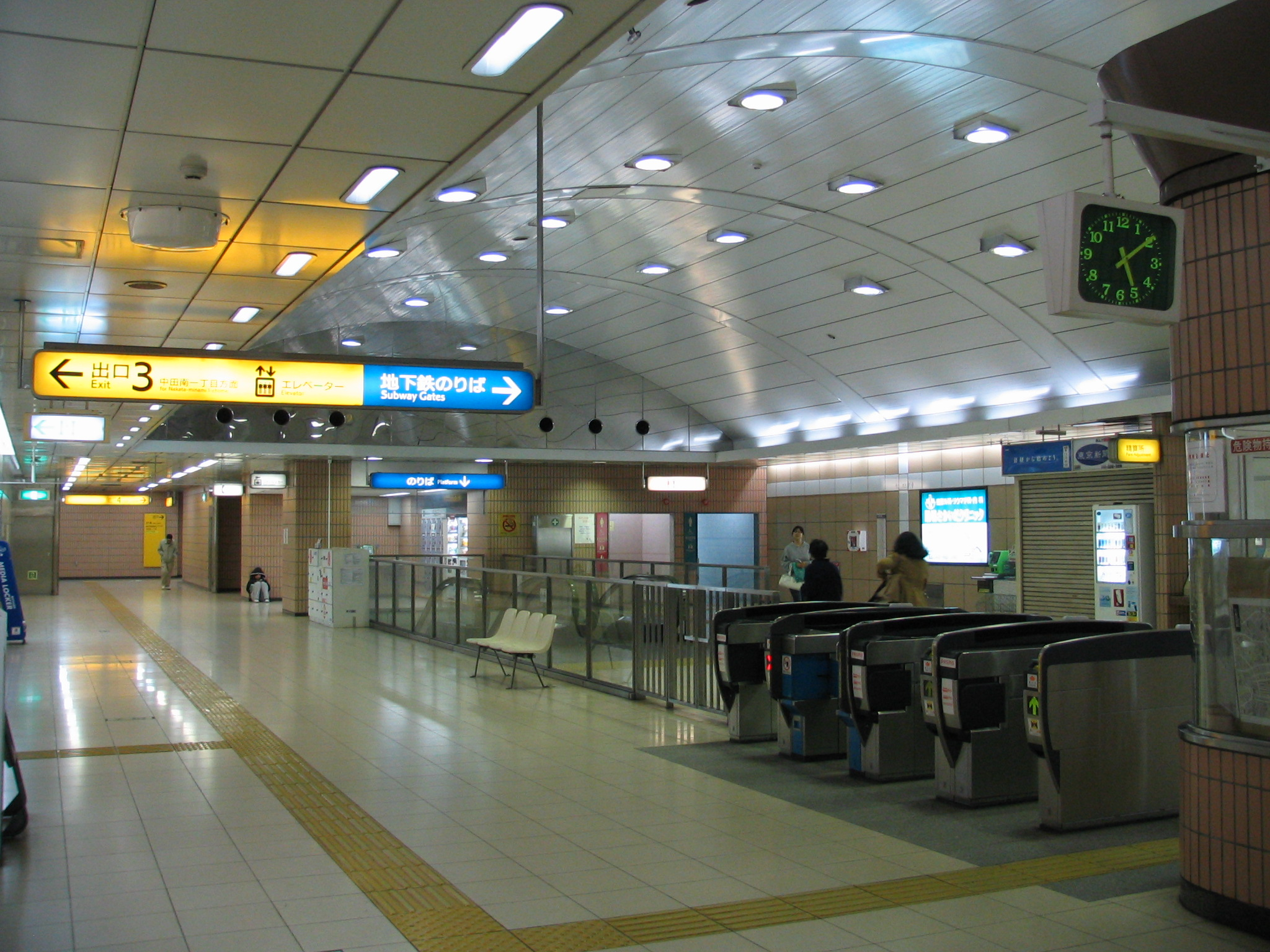 横浜市営地下鉄ブルーライン踊場駅改札口 Odoriba Station ticket gate. (Yokohama Subway).